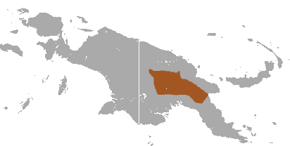 Ifola Tree-kangaroo (Dendrolagus notatus) range